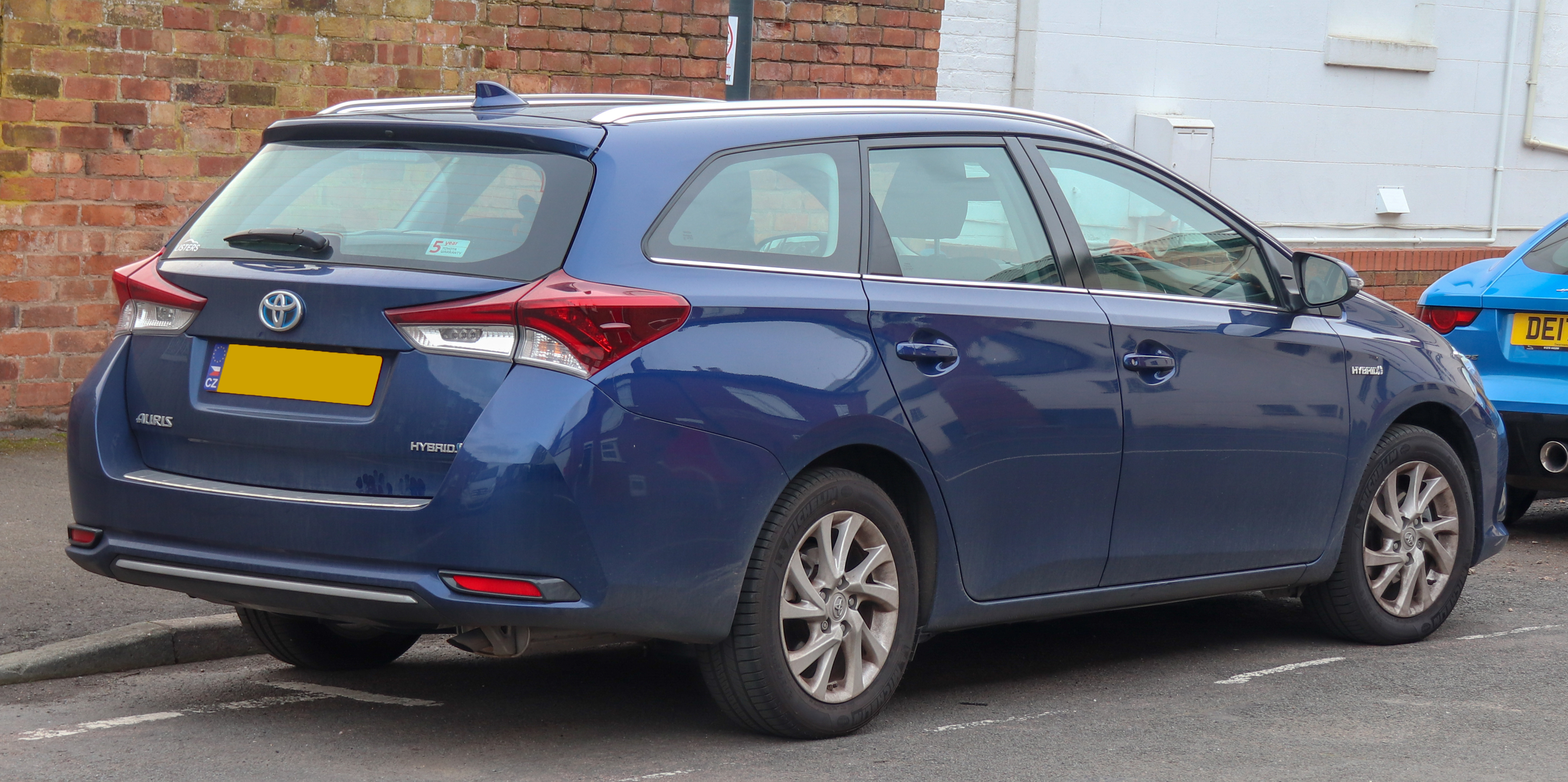 2019 Toyota Auris Icon Tech HEV VVT-i Estate 1.8 Rear Taken in Warwick